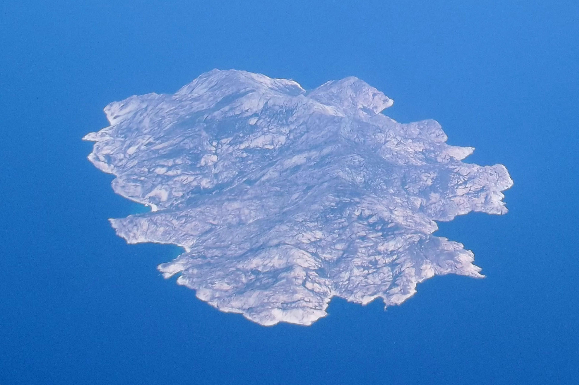 Montecristo island seen from a flight from Schiphol to Antananarivo (Madagascar) Picture is cropped and corrected.)